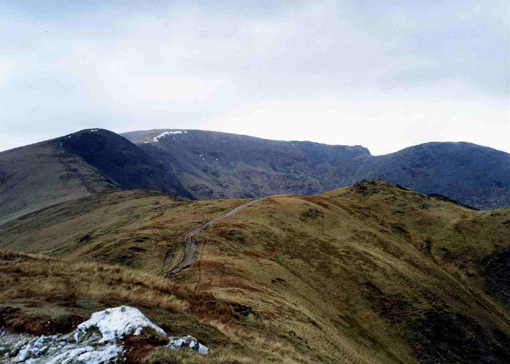 Fairfield horseshoe Personal picture taken by Mick Knapton